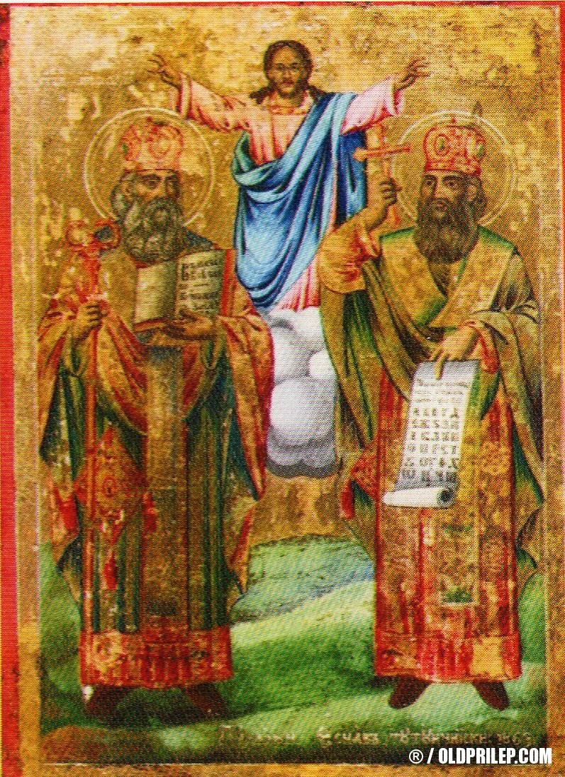 Sts_Cyril_and_Methodius Icon by Adamche Naydov